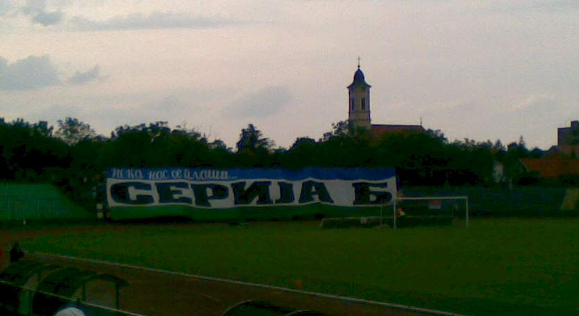 Taurunum Boys - supporters of FK Zemun, at the final match of Srpska liga Beograd 2008-09. The text says: "May Serie B be afraid of us". (Serie B, meaning: Prva liga Srbije. The supporters are behind the sheet.)